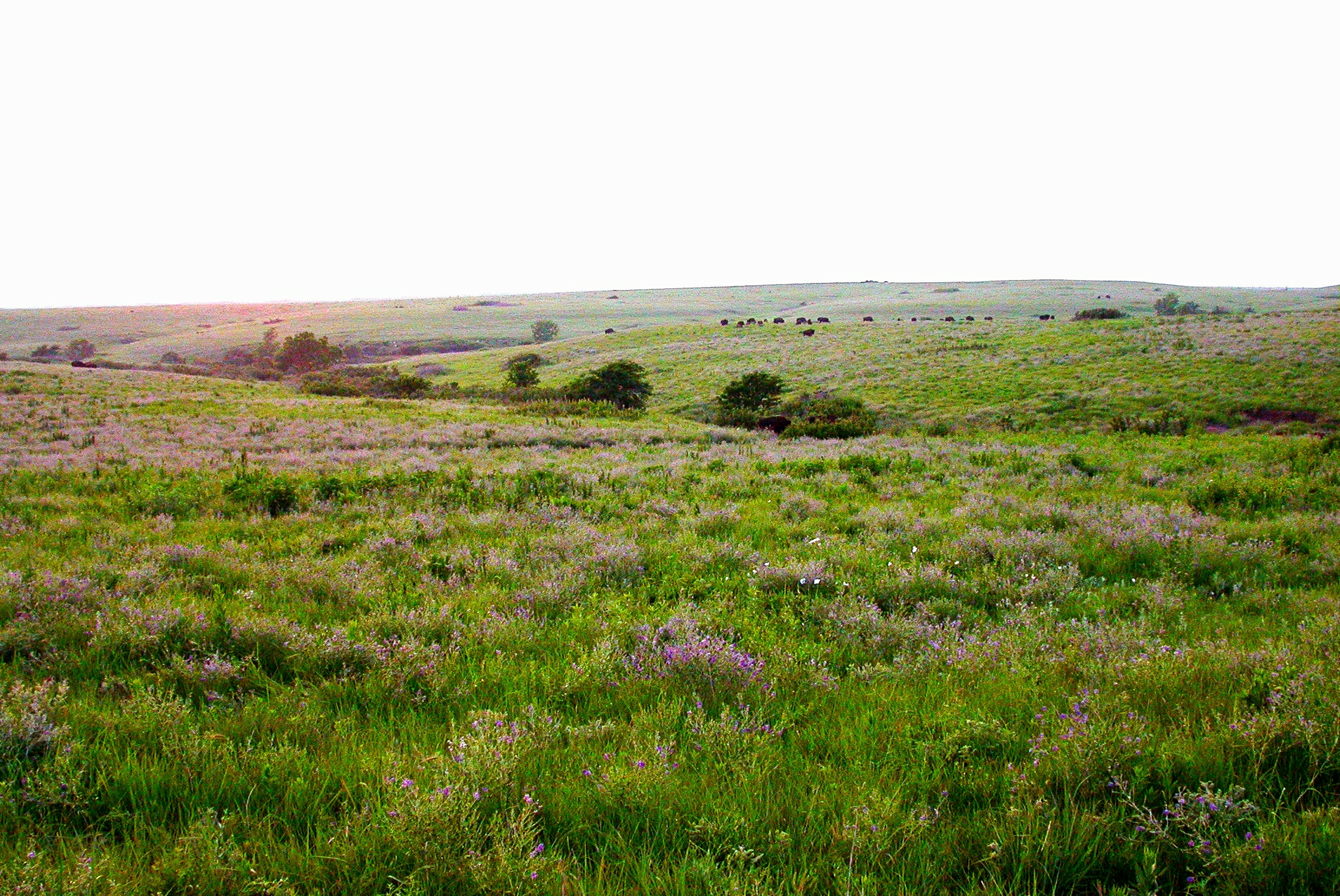 Flint Hills, Kansas Photo credit: Edwin Olson